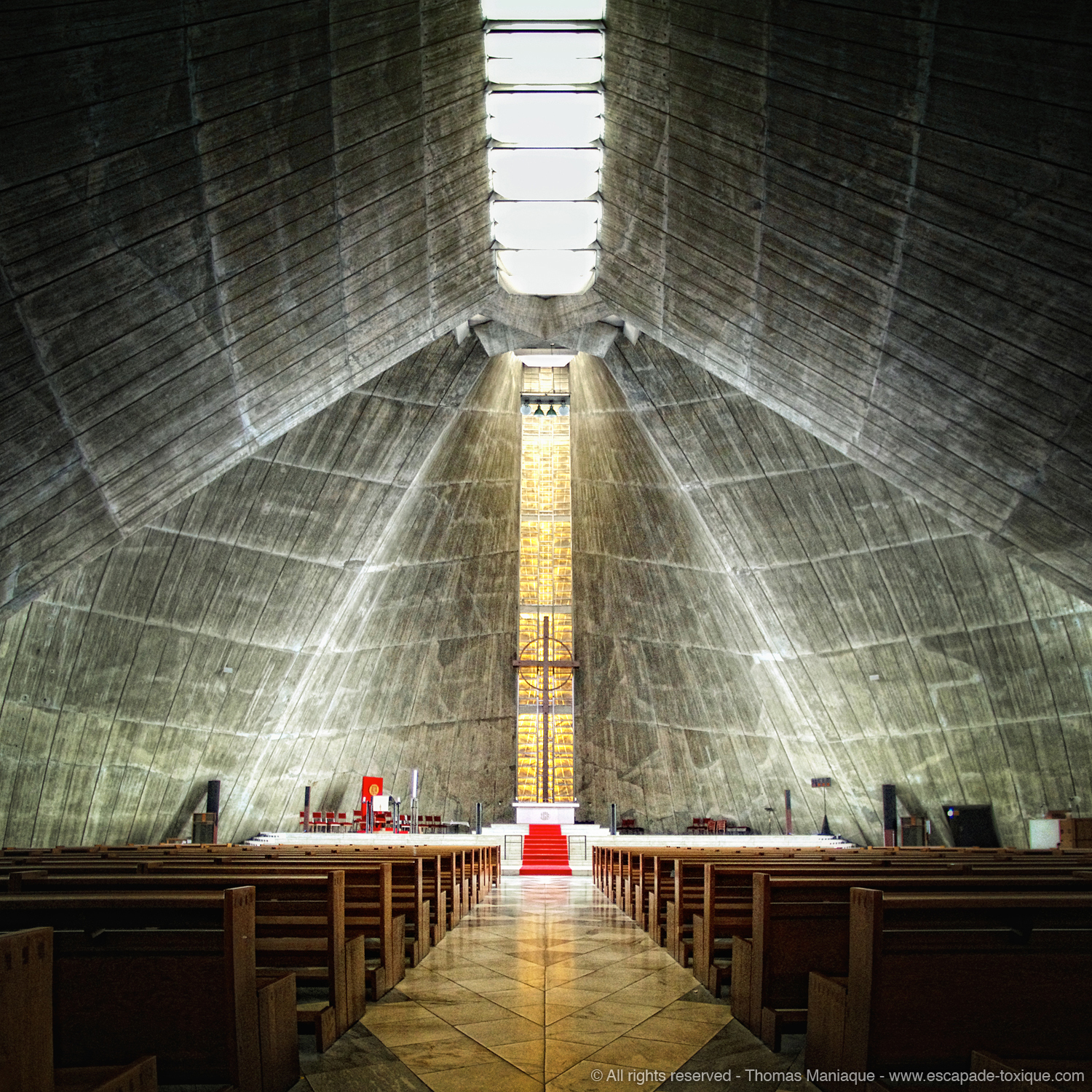 Organ of St. Mary's Cathedral Tokyo overlooking the main entrance.